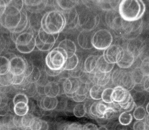 The look of point source of light, when its out of focus in the mirror lenses.